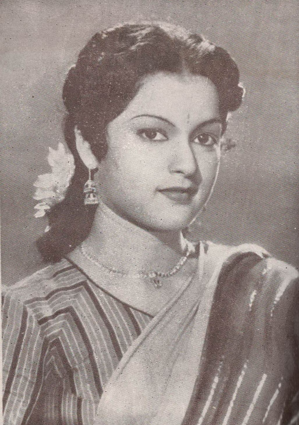 P. K. Sarasvathi, South Indian film actress